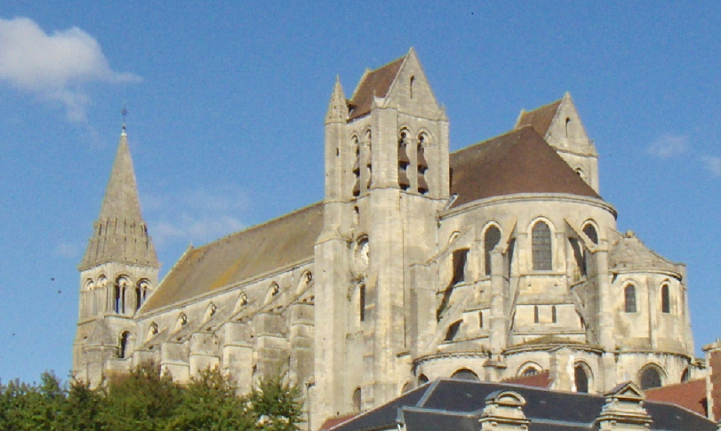 Saint-Leu-d'Esserent Abbey, Oise, France (XIIth cent.)